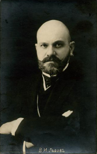 Vladimir Nikolaevich Lvov, procurador del santo sínodo de la iglesia ortodoxa rusa.